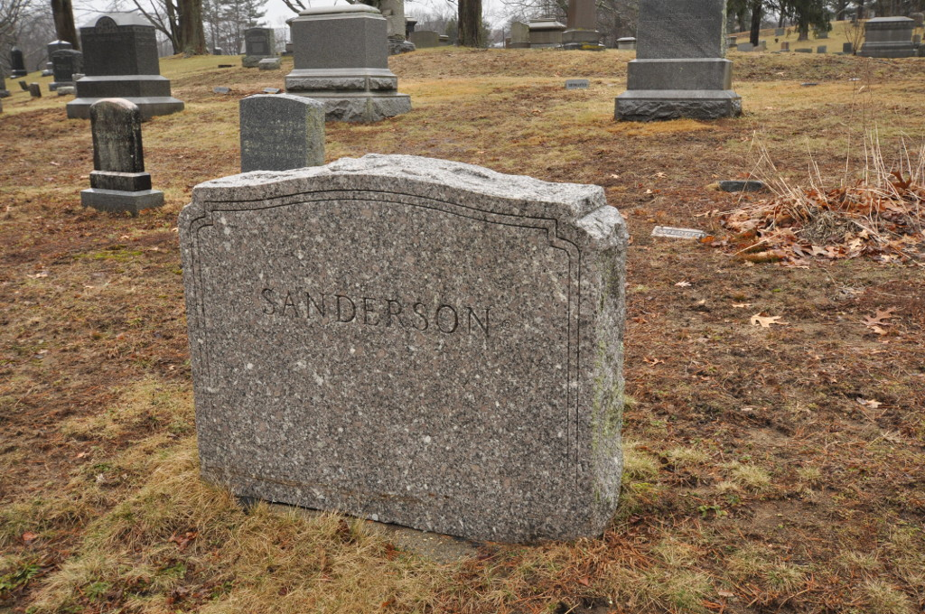 Sanderson family plot, Mount Feake Cemetery, Waltham, Massachusetts. The mathematician Mildred Sanderson is buried here; her plot marker is visible in the background.